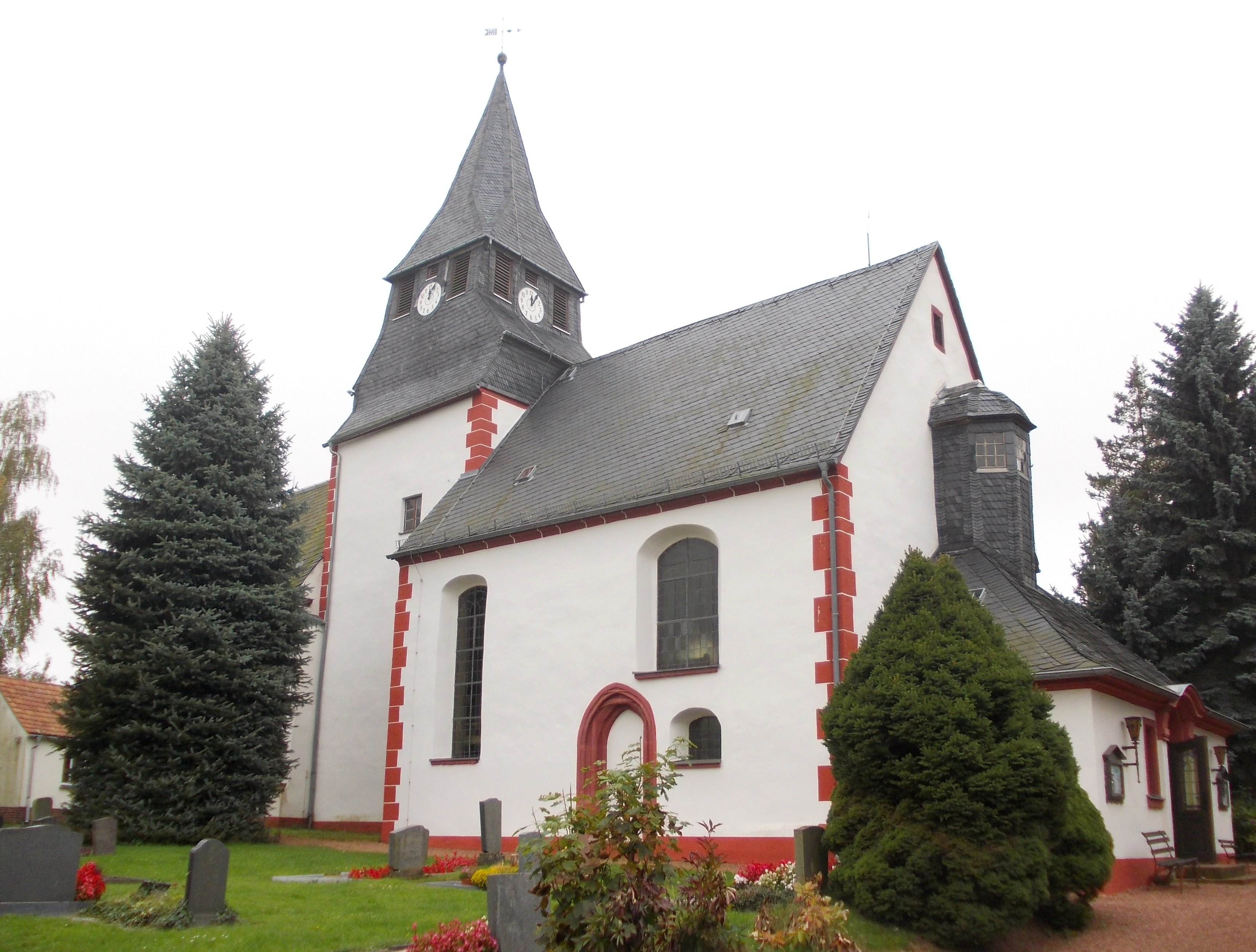 Breitenborn church (Rochlitz, Mittelsachsen district, Saxony)